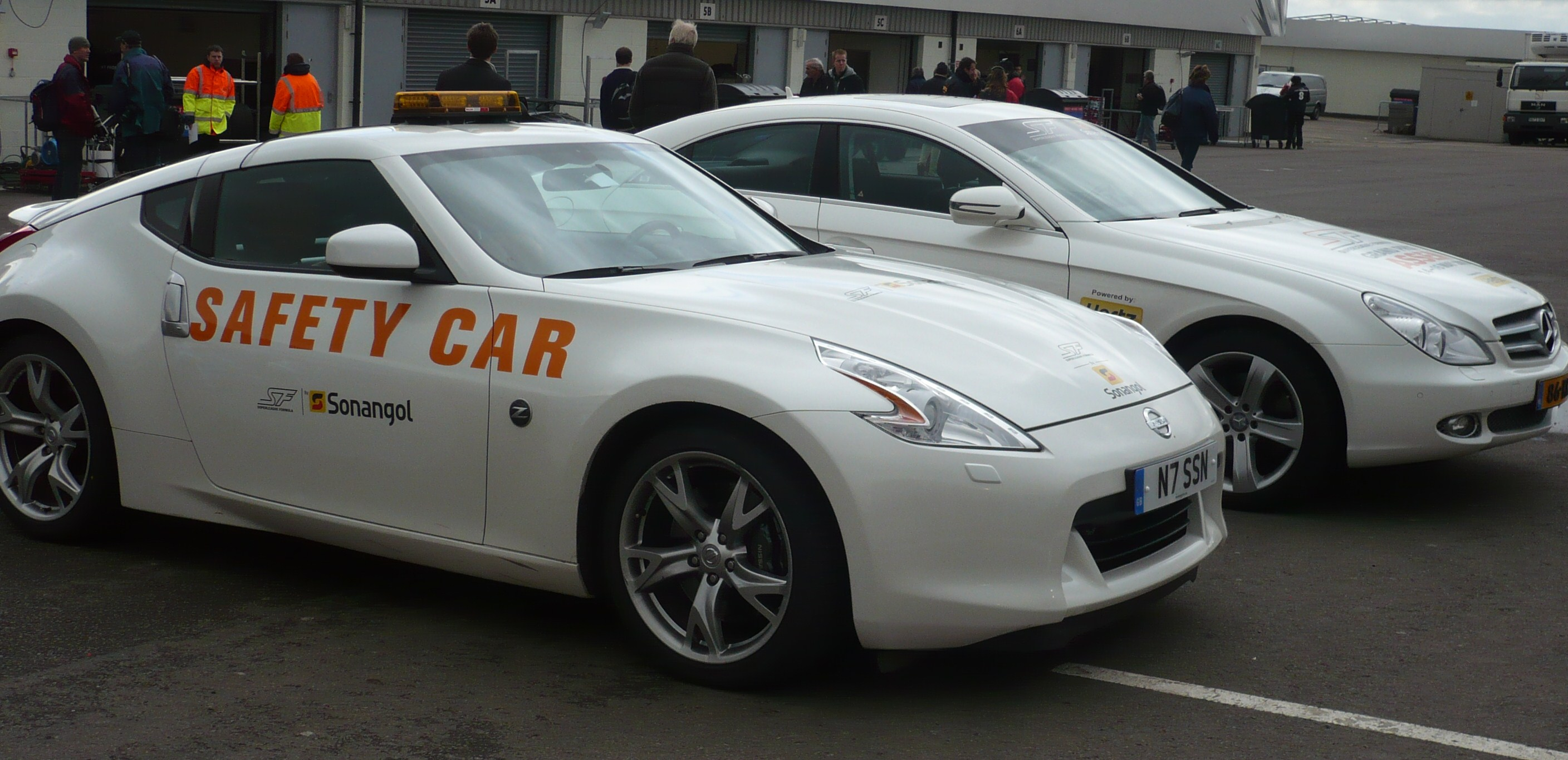 The SF safety cars parked in the paddock. Photo taken by me at Silverstone's 2010 SF round.